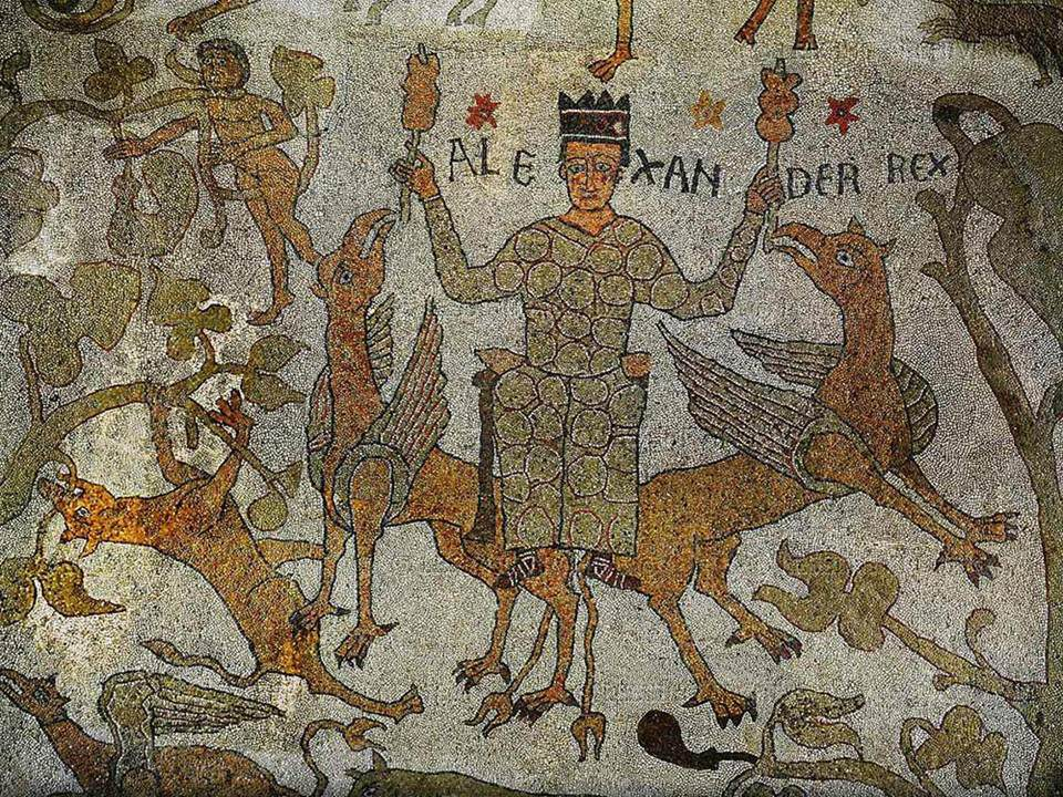 Alexander of Macedon in Otranto cathedral mosaic. The Latin inscription reads: "REX ALEXANDER" (King Alexander or Alexander the King)